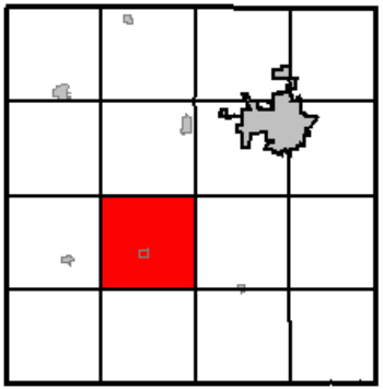 Map of Adams County, Nebraska highlighting Roseland Township; created with the GIMP. Made by User:Acntx.